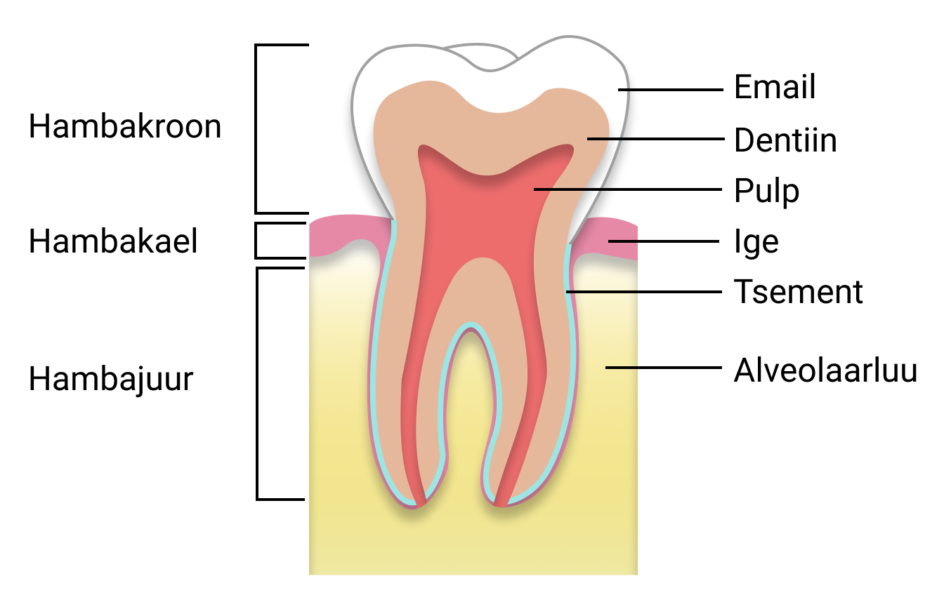 Tooth structure